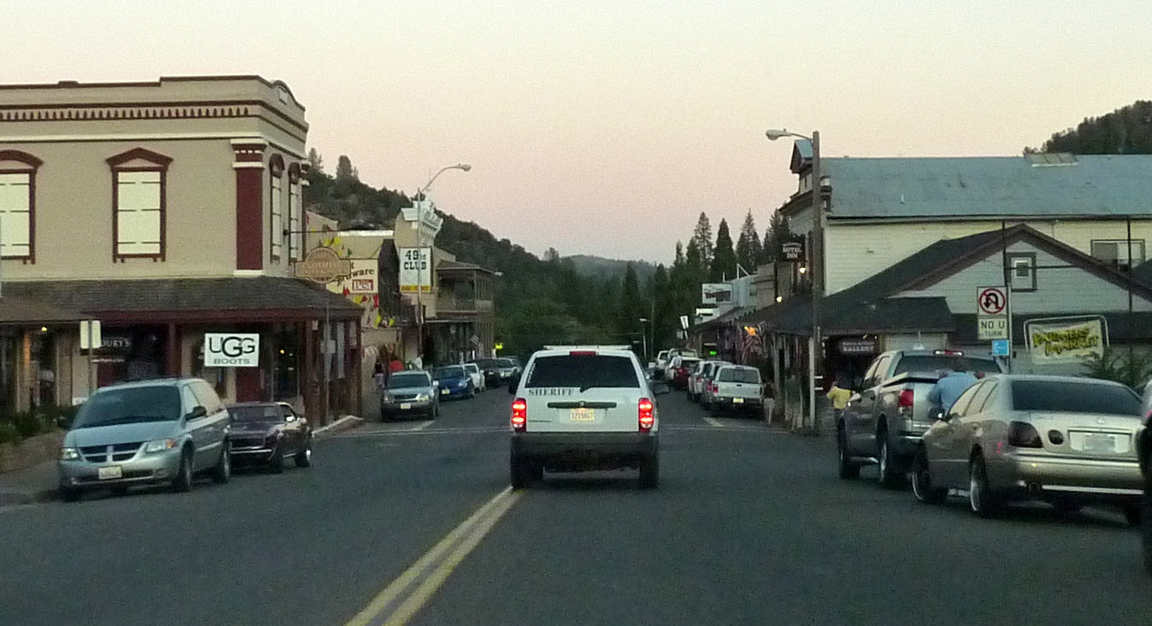 Dusk in Mariposa, California, USA.